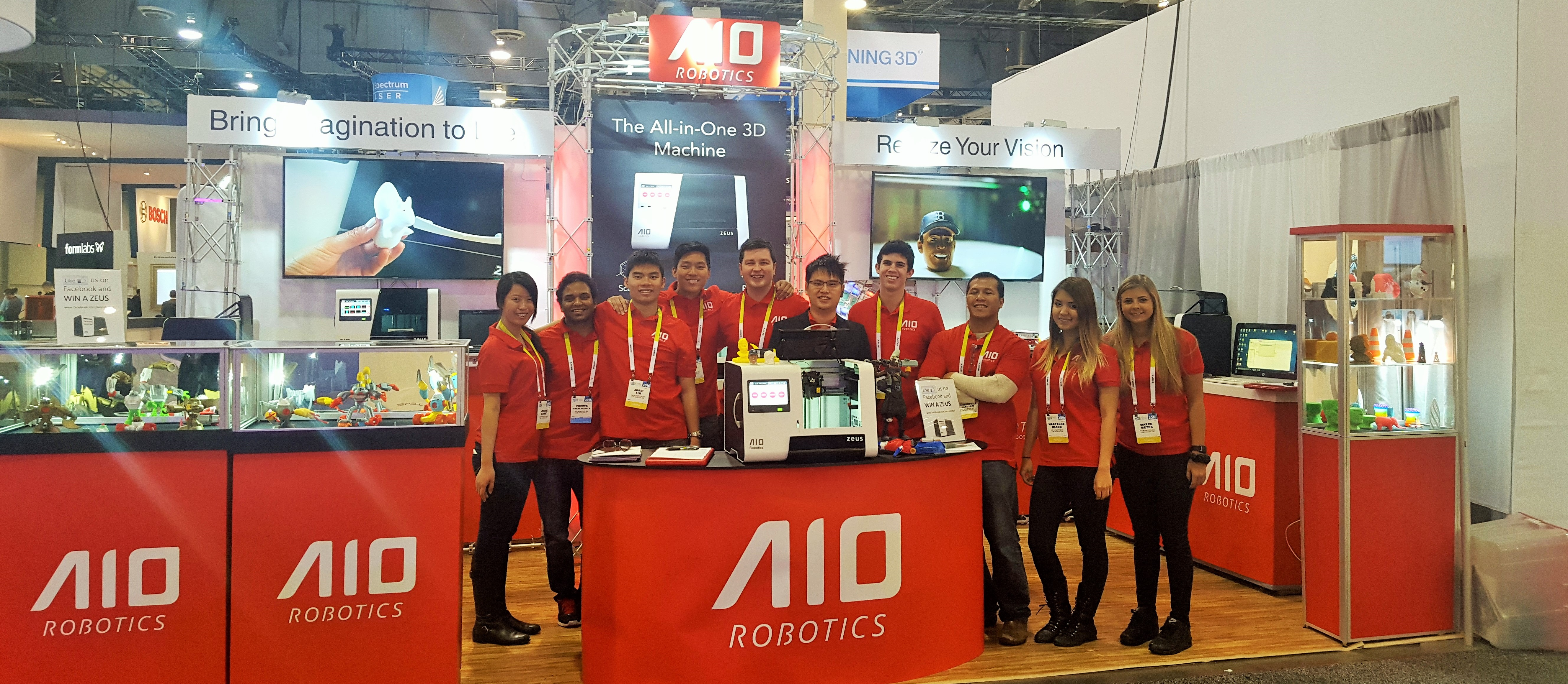 AIO Robotics at the CES Show 2016